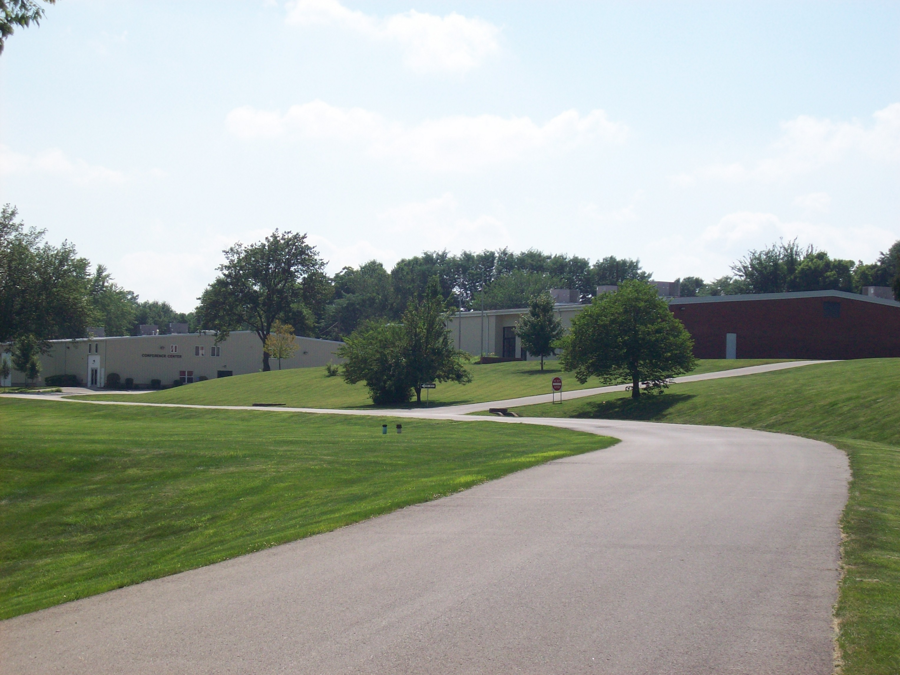 Meetinghouse and Conference Center of the Remnant Church of Jesus Christ of Latter Day Saints in Independence, Missouri.